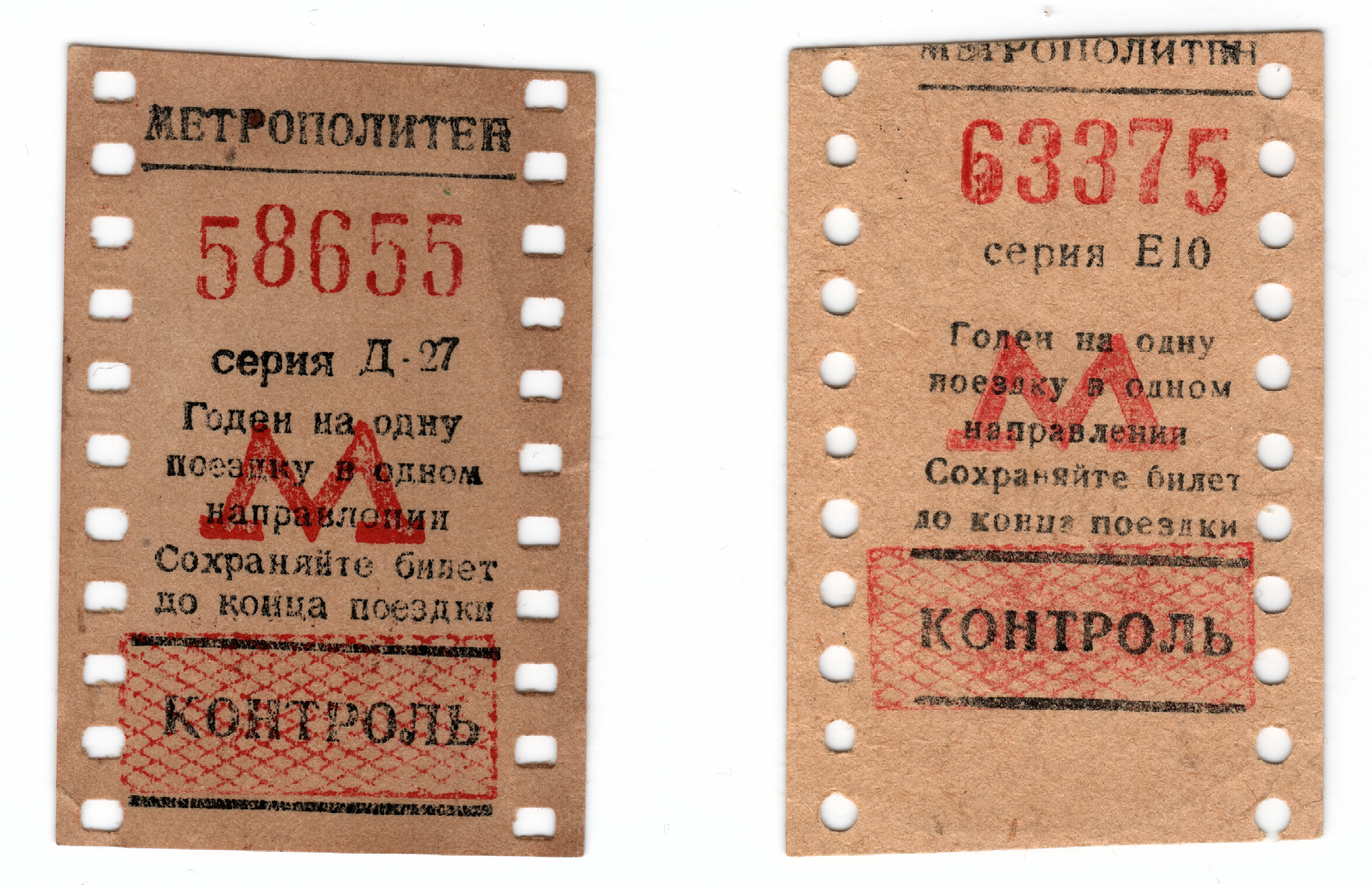 Moscow Metro tickets 1940-1941